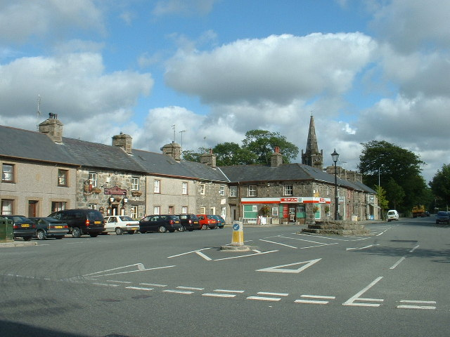 The Square, Tremadog. Probably one of Britain's first 'planned towns', having been built in 1810 by William Madocks for his workers when he built The Cob at Porthmadog. "Tre" is Welsh for town.